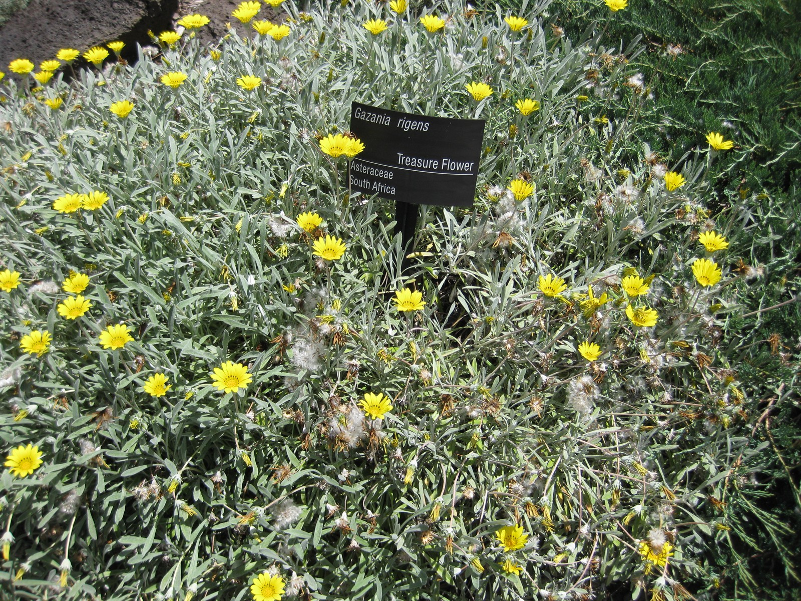 Photographed at the Royal Botanic Gardens Melbourne (Australia) in December